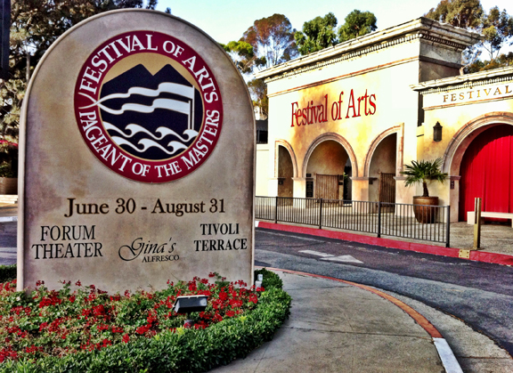 Entrance to the Festival of the Arts and Pageant of the Masters in Laguna Beach, California